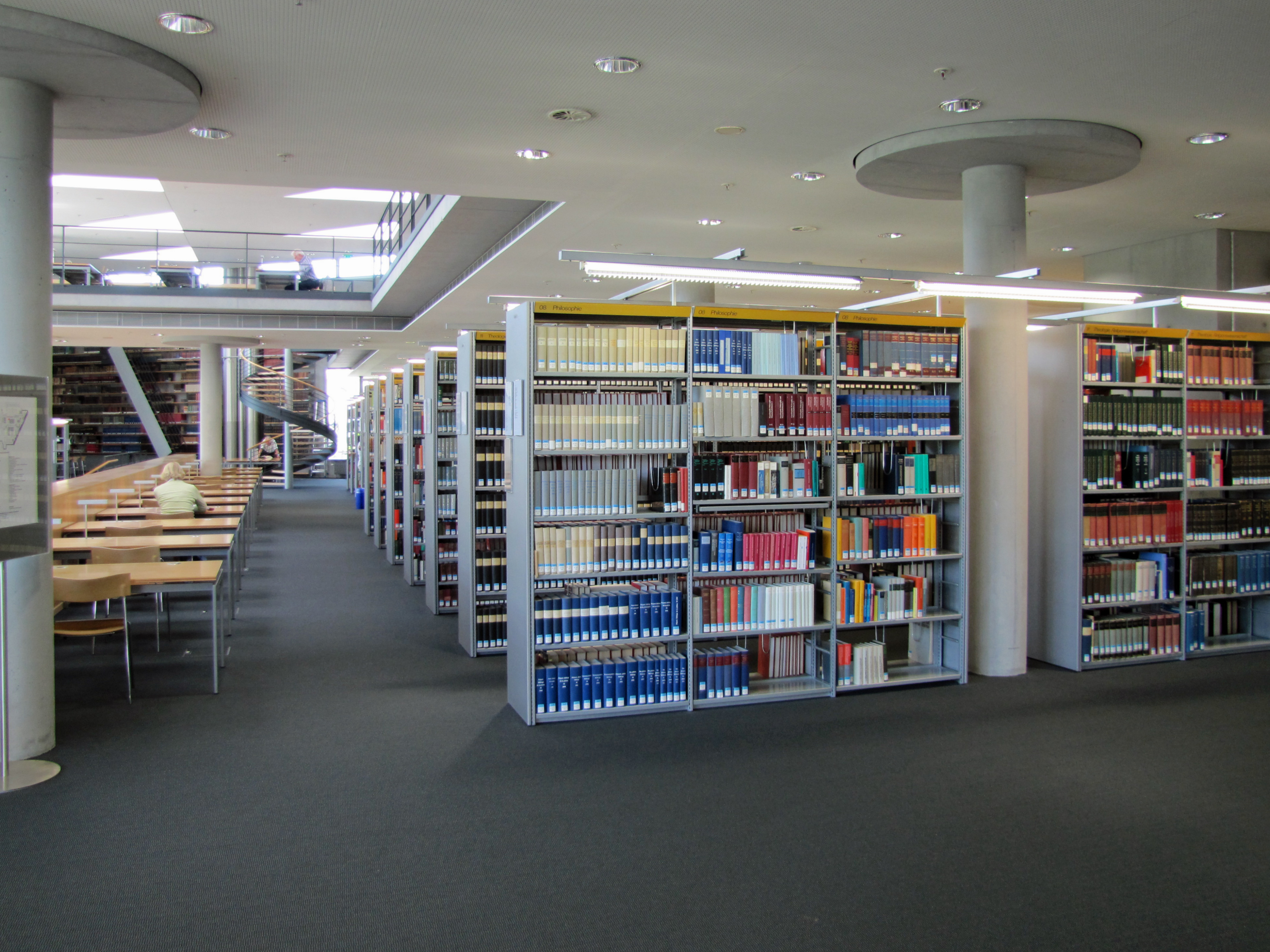 "Deutsche Nationalbibliothek" (German National Library), department Frankfurt am Main, part of freehand stock.